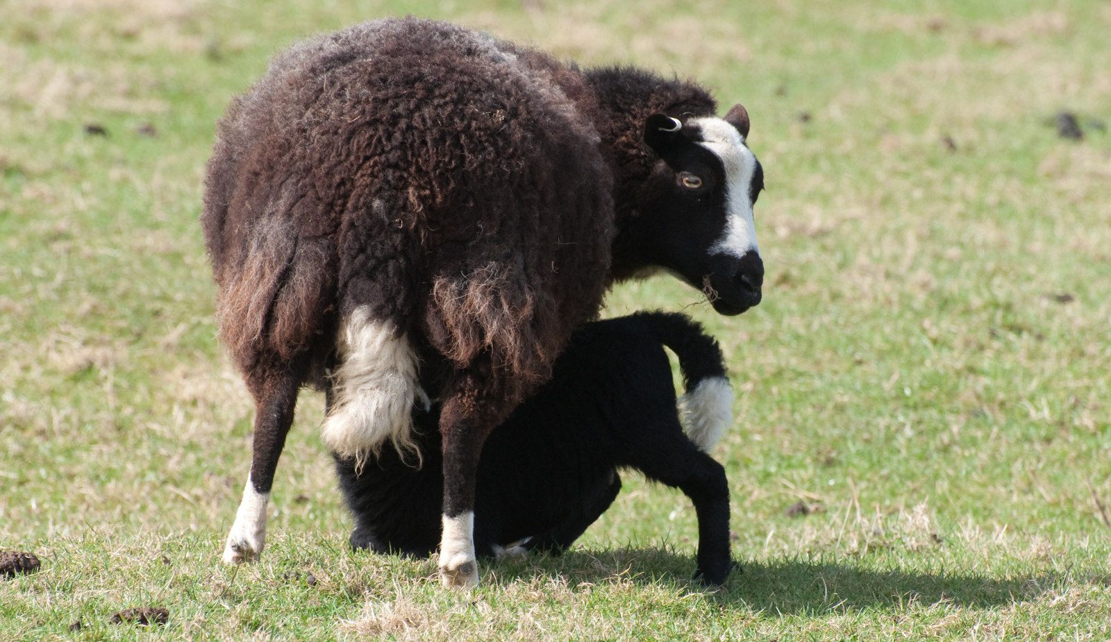 Balwen Black Mountain ewe and lamb - Frampton The ewe clearly showing the white blaze on its face that gives it its name.